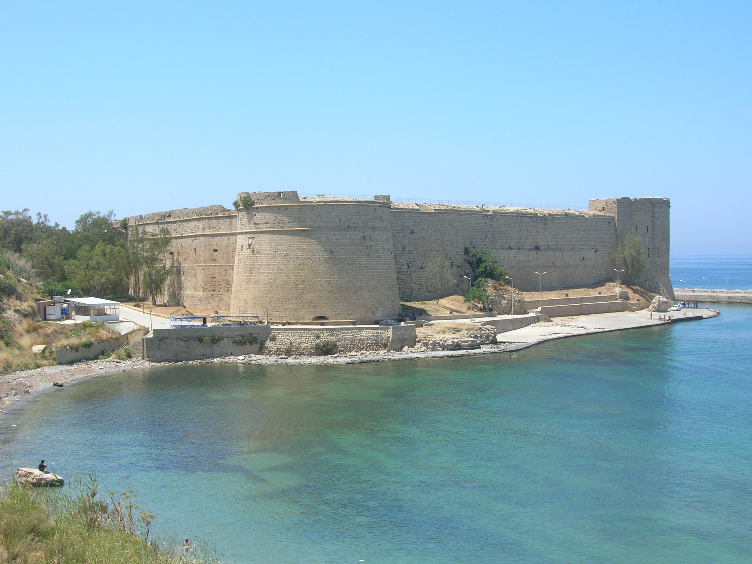 Kyrenia Castle